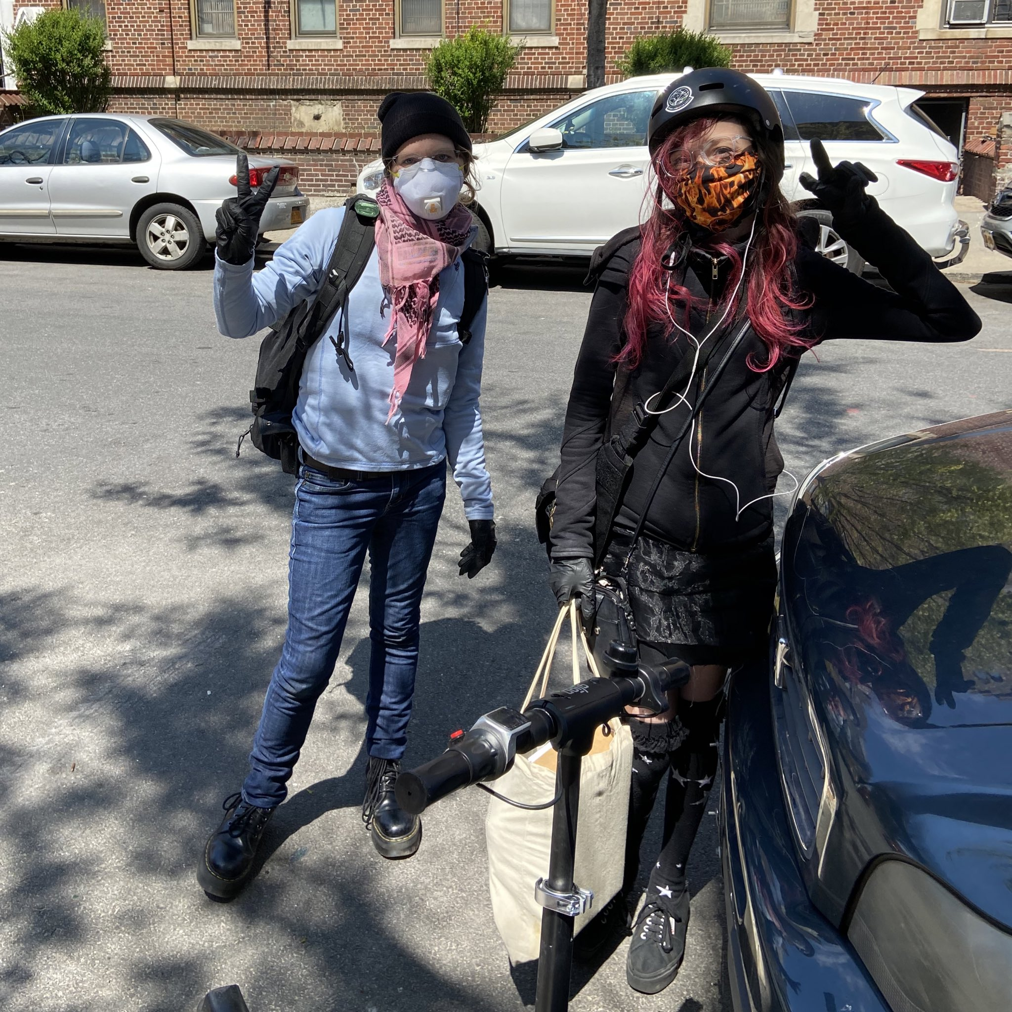 Chelsea Manning (left) in Brooklyn during coronavirus pandemic in April 2020.